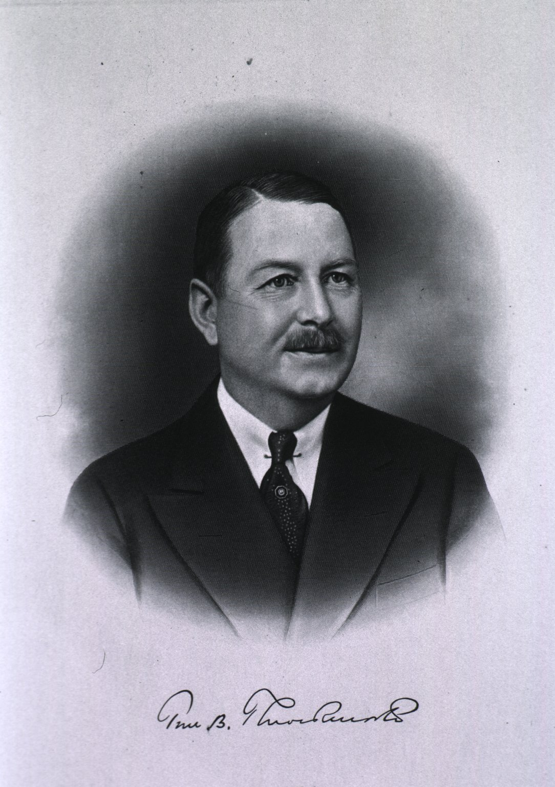 Tom B. Throckmorton